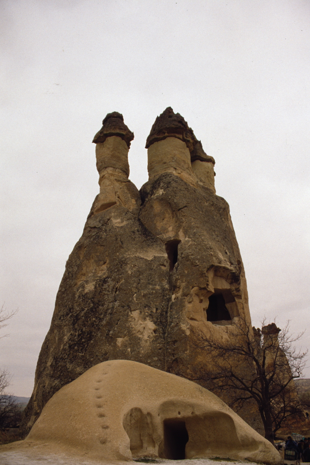 Images from Cappadocia under snow.